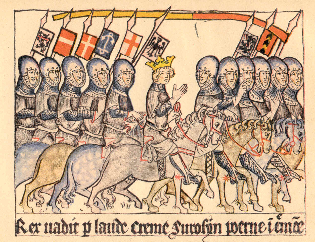 Codex Balduini Trevirensis